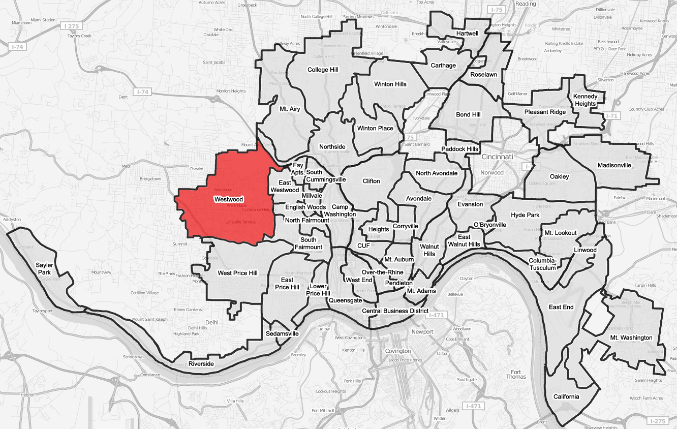 A map of the neighborhood of Westwood within Cincinnati, Ohio. Neighborhood lines are based on information from This street map is derived from a free map.